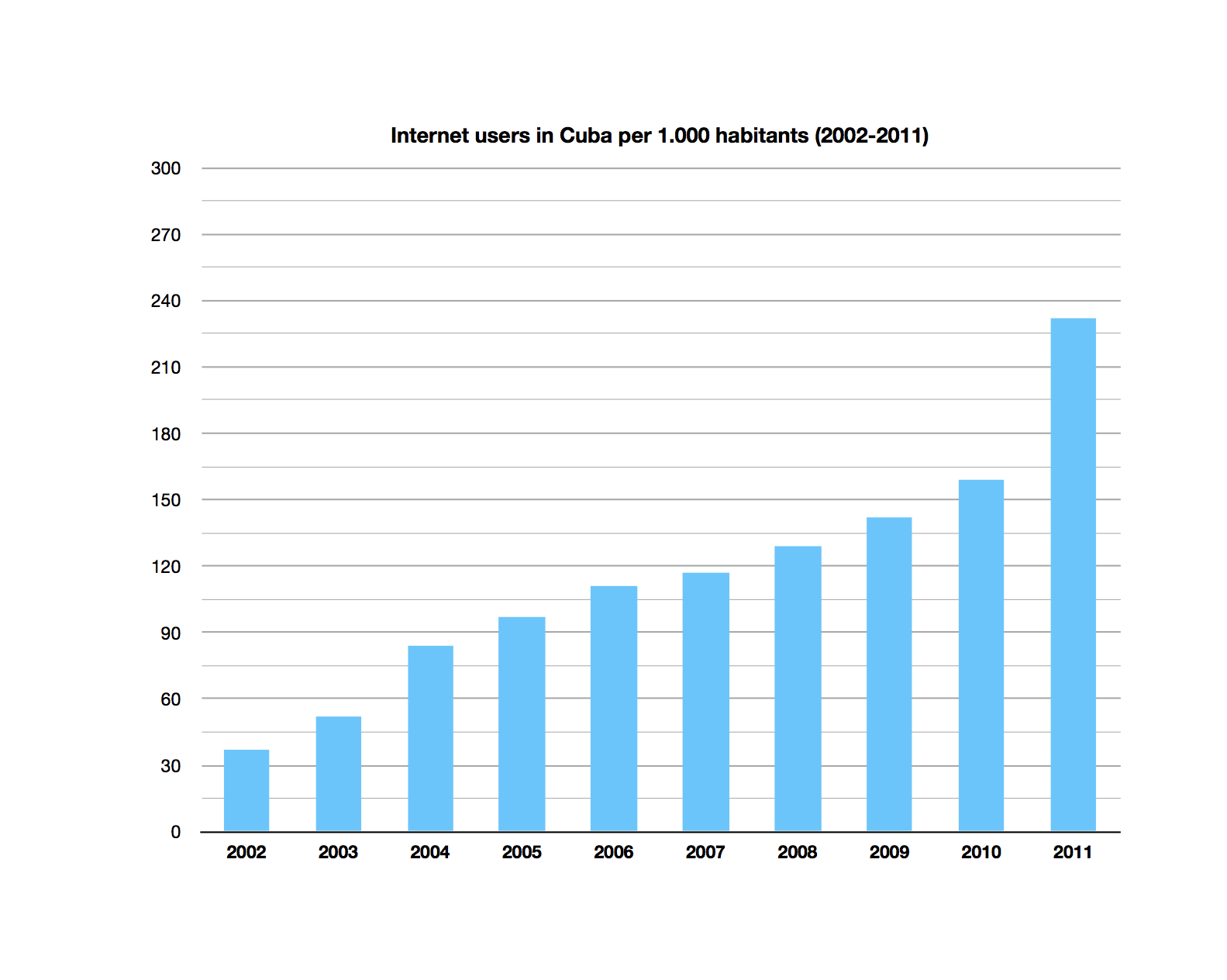 Internet users in Cuba per 1.000 habitants (2002-2011) according to ONE